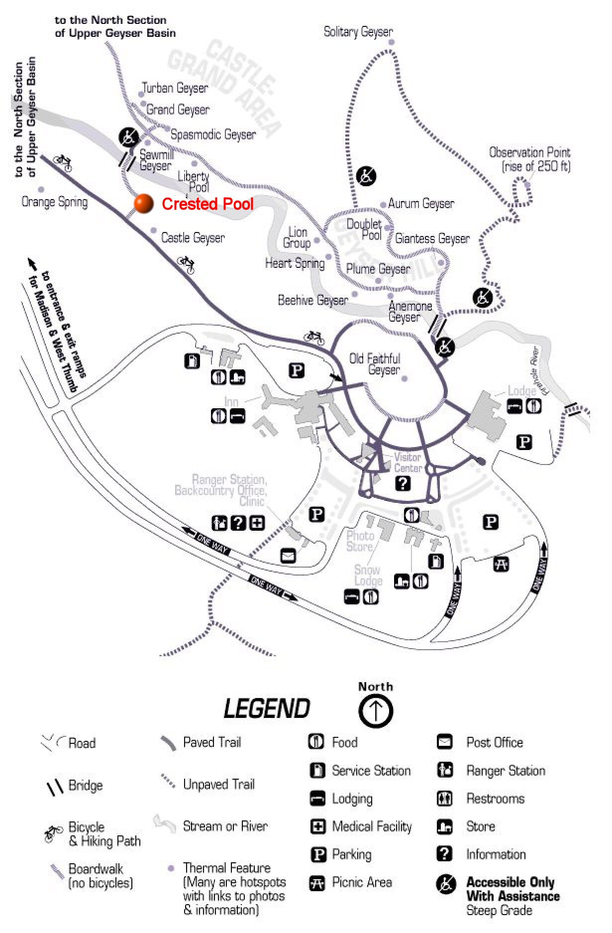 Map of Southern Section of Upper Geyser Basin, Yellowstone National Park with Crested Pool annotated